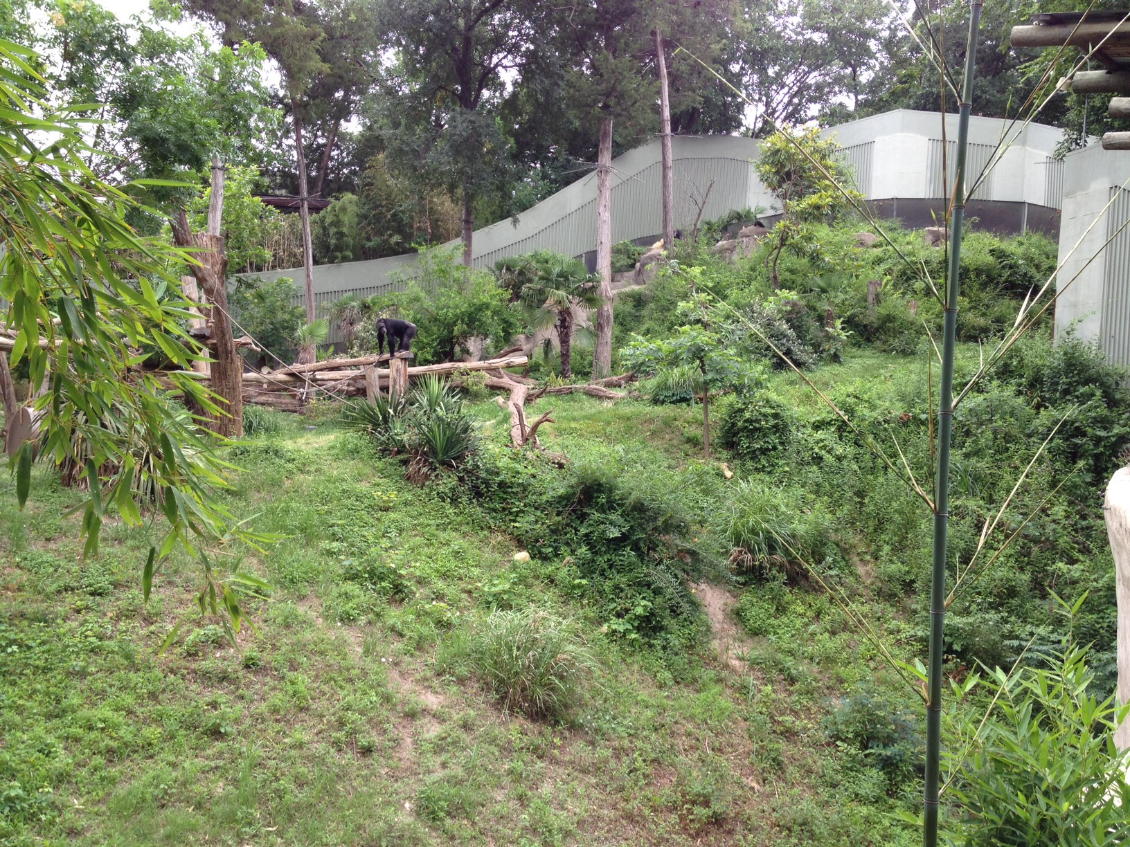 DallasZooChimpanzeeForest